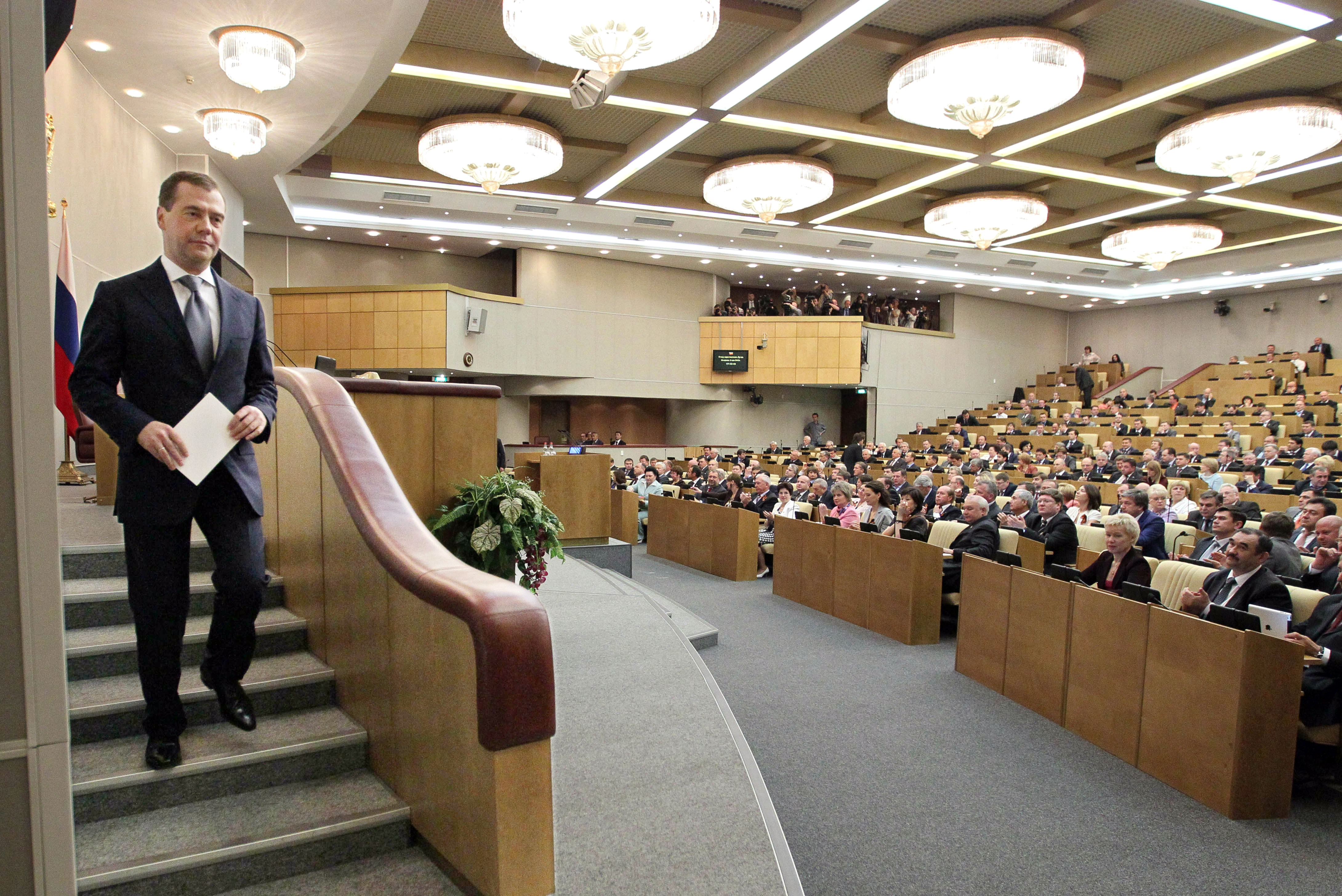 Dmitry Medvedev leaves the speaker's post after making a speech for Russia's State Duma deputies during a meeting where he was approved prime minister